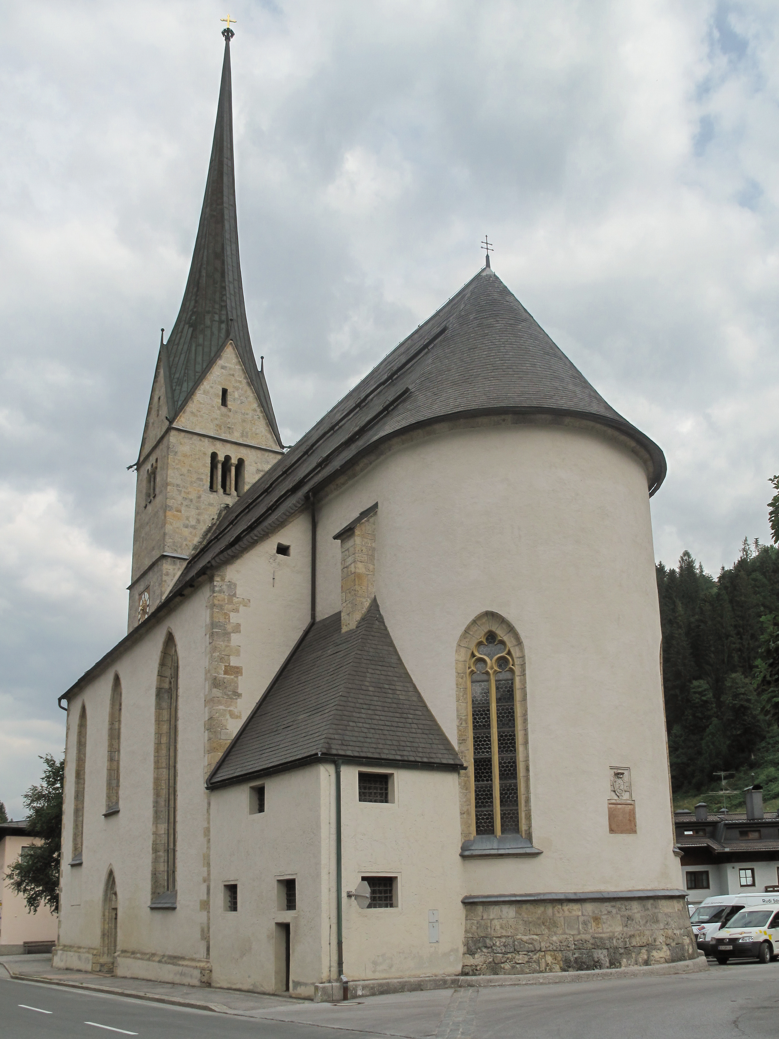 Hüttau, church